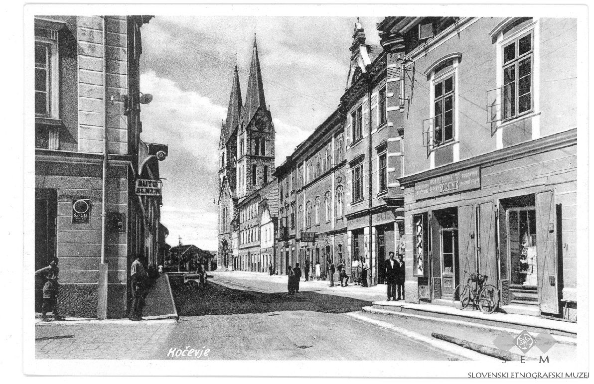 Postcard of Kočevje